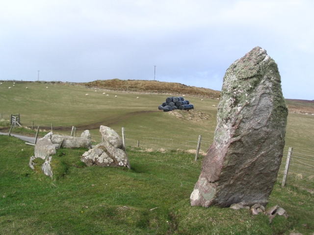 View of chambered cairn looking north towards Old Shieling